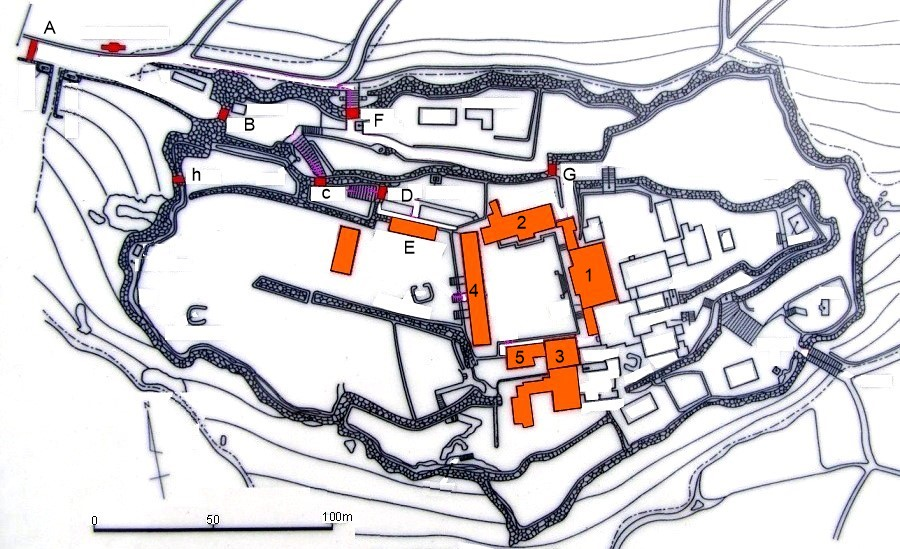 Layout of Shuri Castle: 1-Seiden 2-Hokuden 3-Nanden 4-Houshinmon 5-Bandokoro A-Shureimon B-Kankaimon C-Zuisenmon D-Roukokumon E-Koufukumon F-Kyukeimon G-Uekimon H-Kobikimon